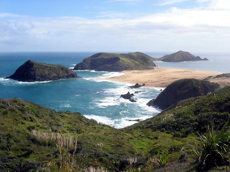 Cape Maria Van Diemen, seen from the Cape Reinga Walkway; Taupiri Island on the left, Motuopao Island in the distance on the right (partly obscured by the cape)